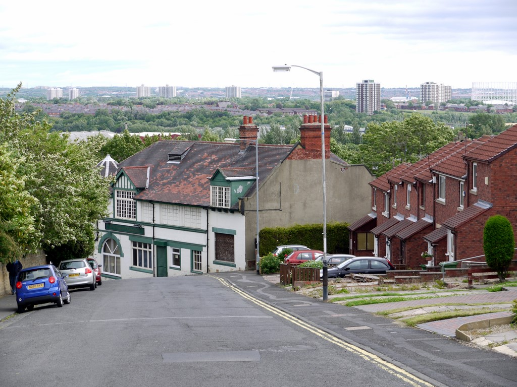 View from St John's Lane in Felling, Gateshead